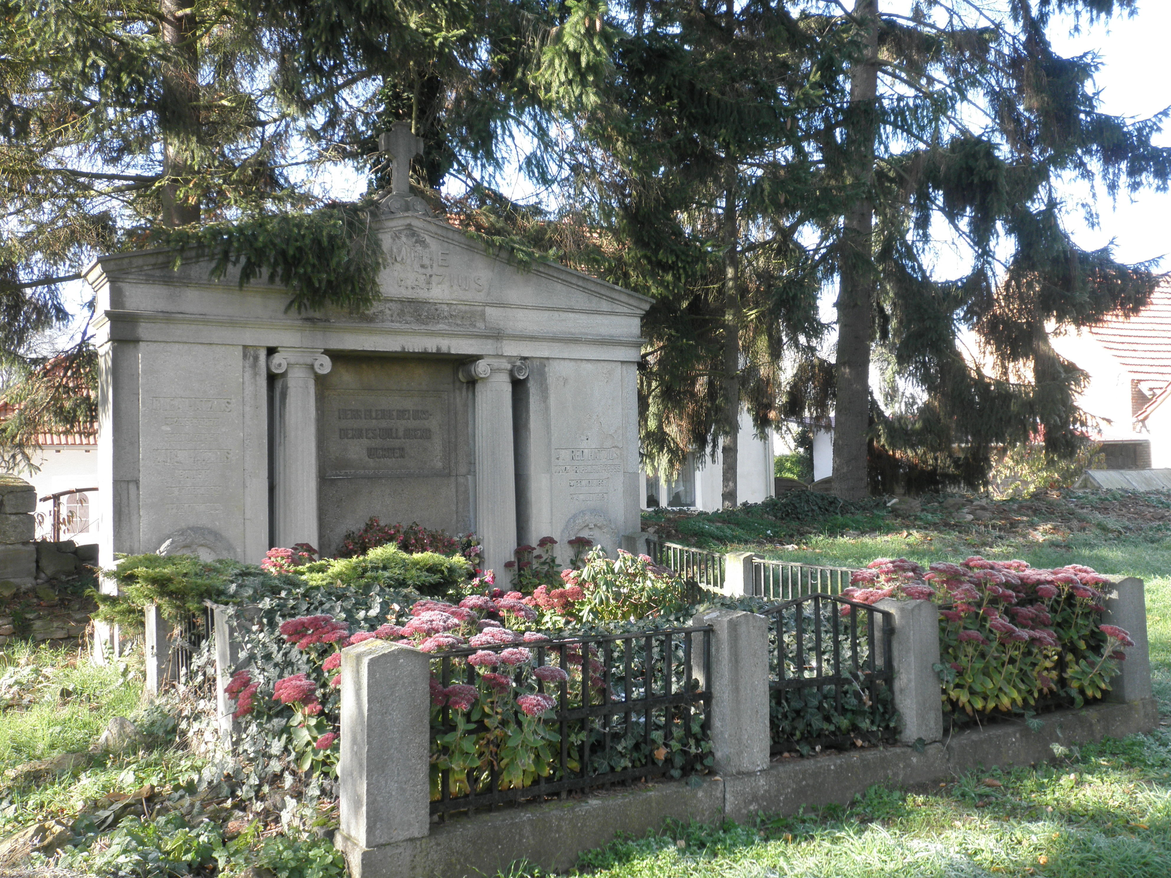 Tomb in Abtsbessingen in Thuringia